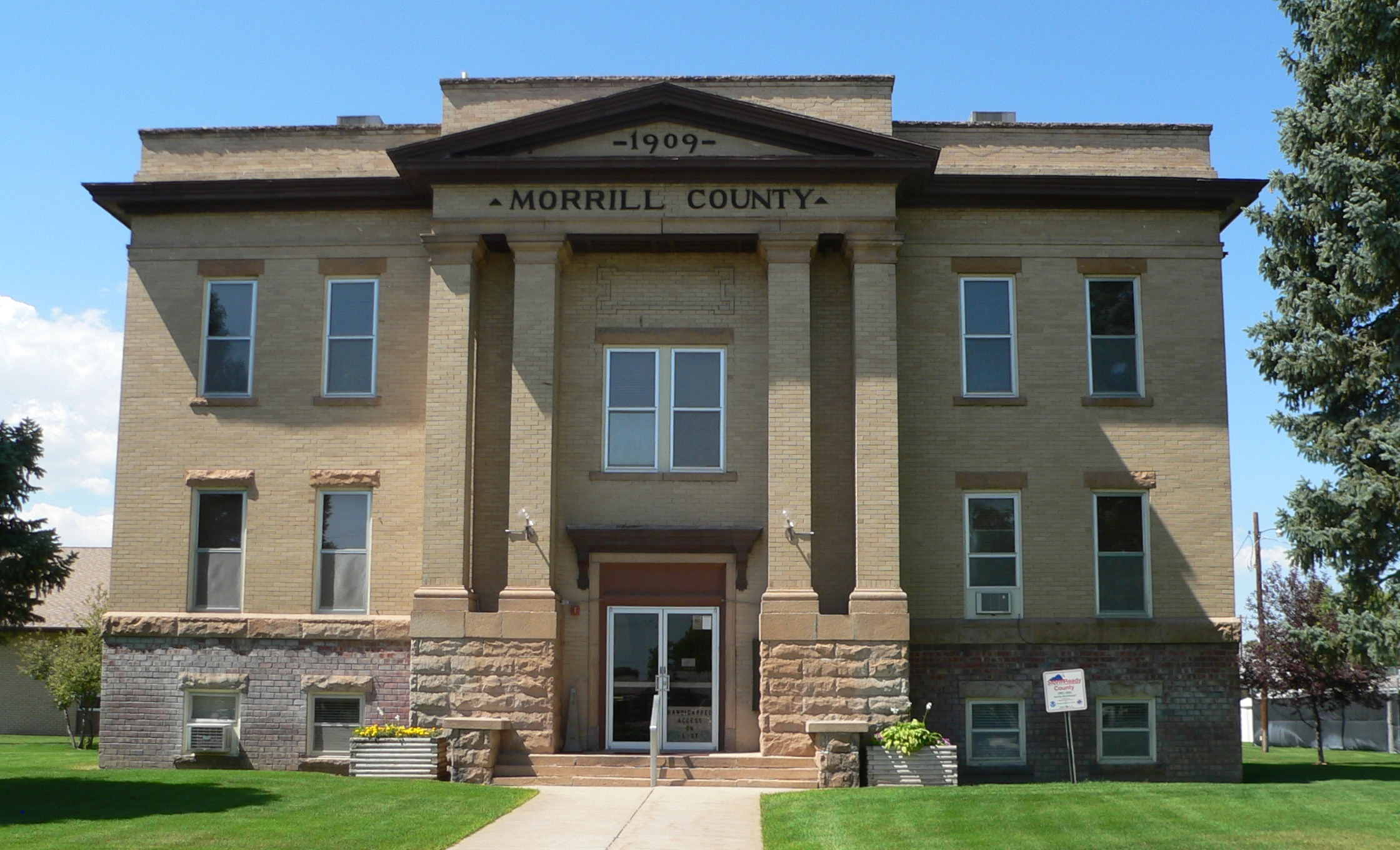 Morrill County Courthouse in Bridgeport, Nebraska; seen from the east. The Classical Revival building was constructed in 1909. It is listed in the National Register of Historic Places.